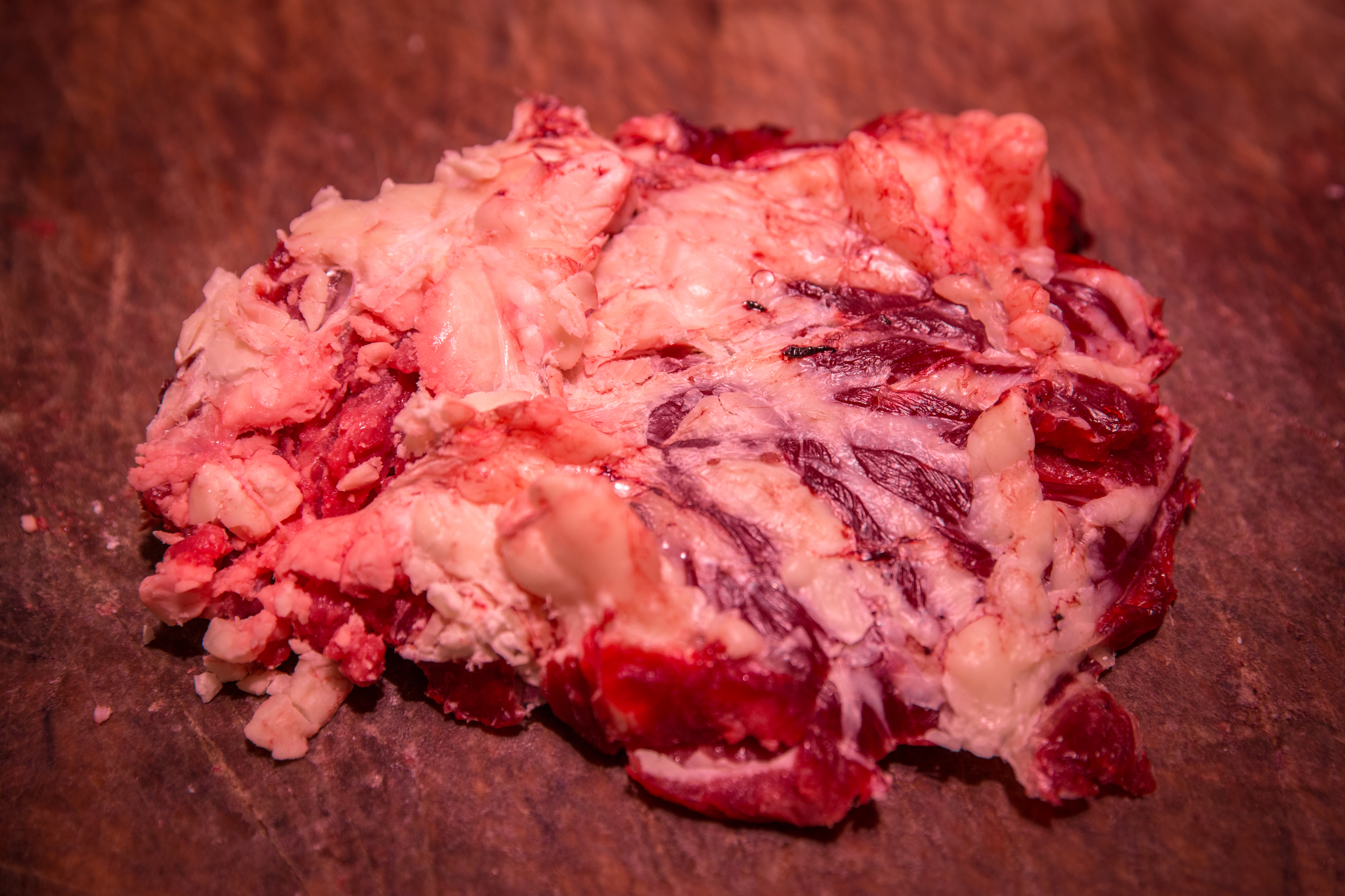 Spinnenkop (stuk vlees, de zogenaamde 'beenhouwersbiefstuk) van Belgisch witblauw